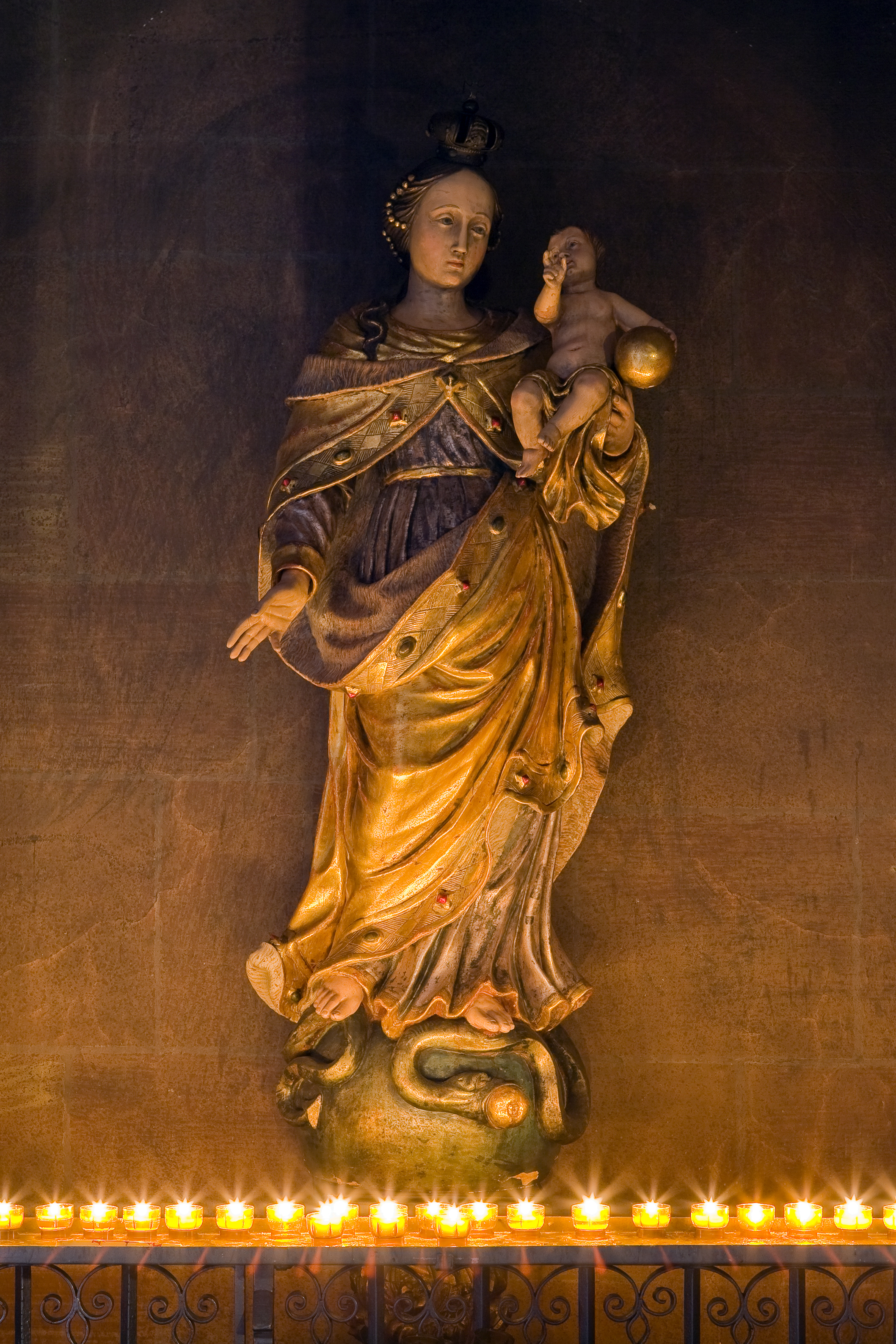 Frankfurt on the Main: St Leonard's Church, baroque Immaculata of Mainz of the 18th century in the southern aisle